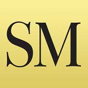 The logo of London & UK Restaurant and Venue Guide Square Meal